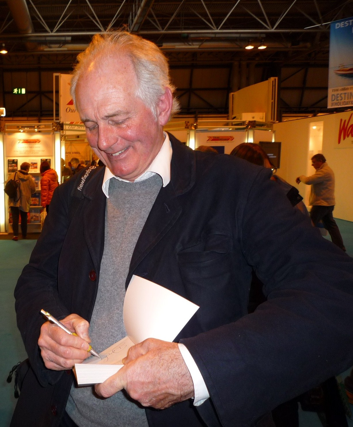 Dan Cruickshank